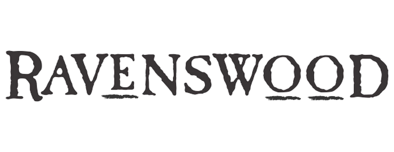 Logo for the US television show Ravenswood